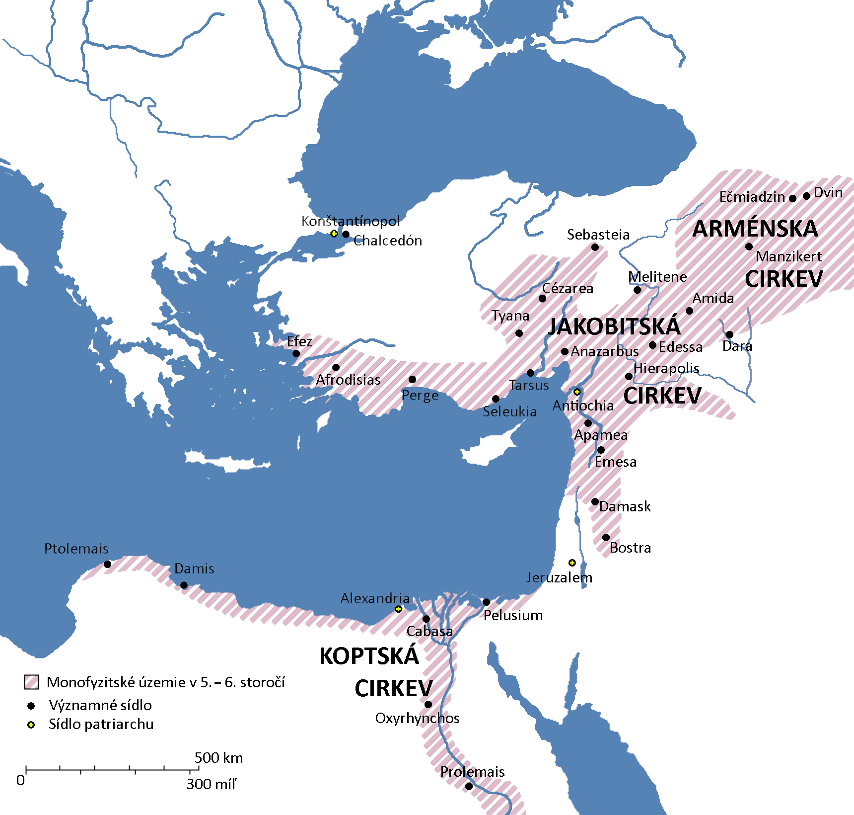 The spread of monophysitism in the Byzantine Empire in the 5th to 6th centuries, by:HALDON, J. The Palgrave Atlas of Byzantine History. : Springer, 2005. ISBN 978-0-230-27395-5. p. 50